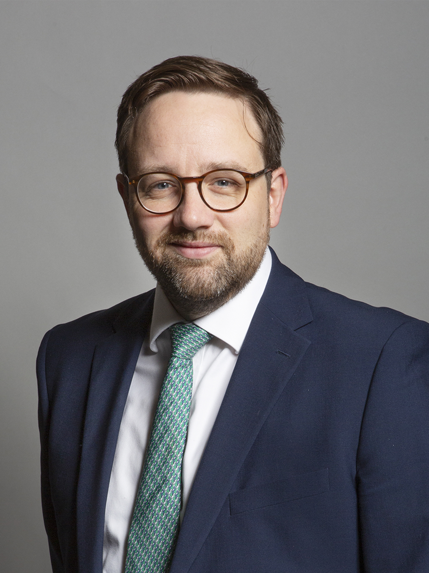 Official portrait of Chris Elmore MP 3×4 portrait of Chris Elmore